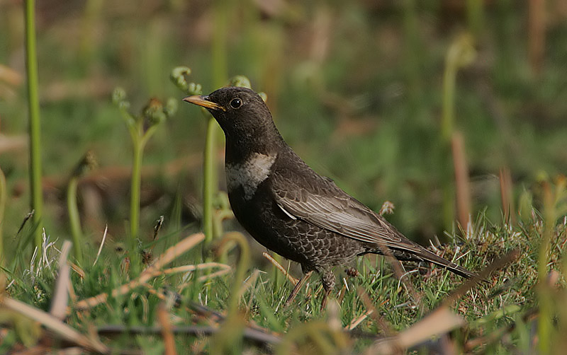 A female Ring Ouzel photographed in Glenturret, Scotland.